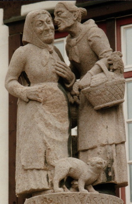 Gossips in the Altstadt in Sindelfingen, Germany.